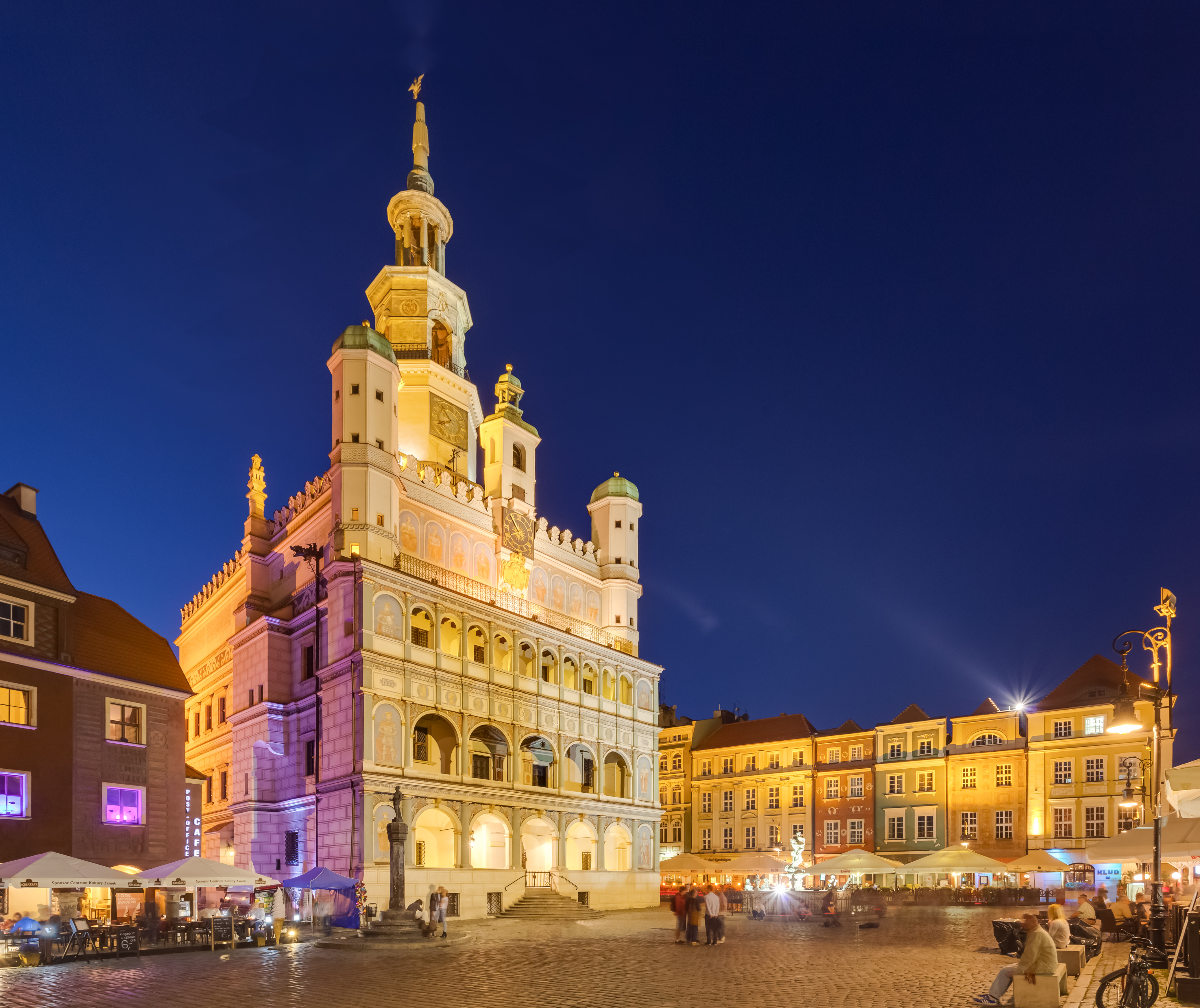 Town hall, Poznan, Poland